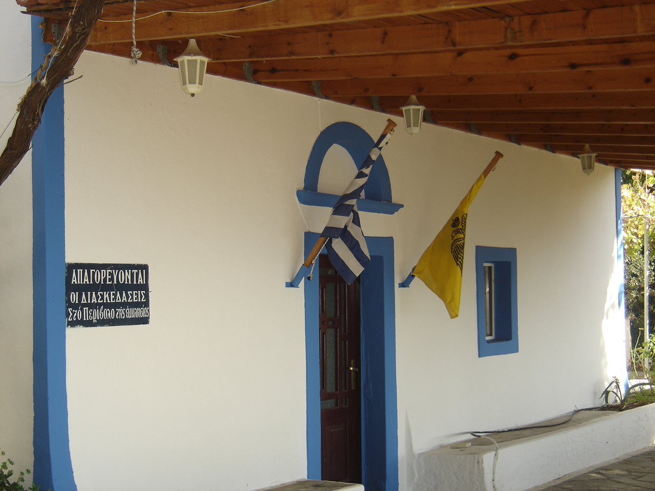 The monastery of Panagia Lygia near Stavrochori, Lasithi, in Crete.